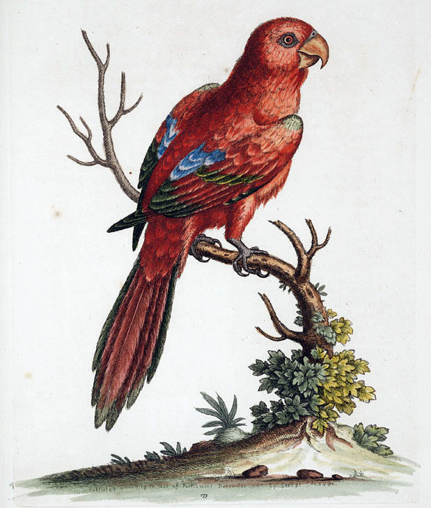 Long-tailed Scarlet Lory. Plate 173 from A natural history of birds. The most of which have not hitherto been either figured or described, and the rest, by reason of obscure, or too brief descriptions without figures, or of figures very ill designed, are hitherto but little known Part IV Written by George Edwards, Library-keeper to the Royal College of Physicians. Published in 1751